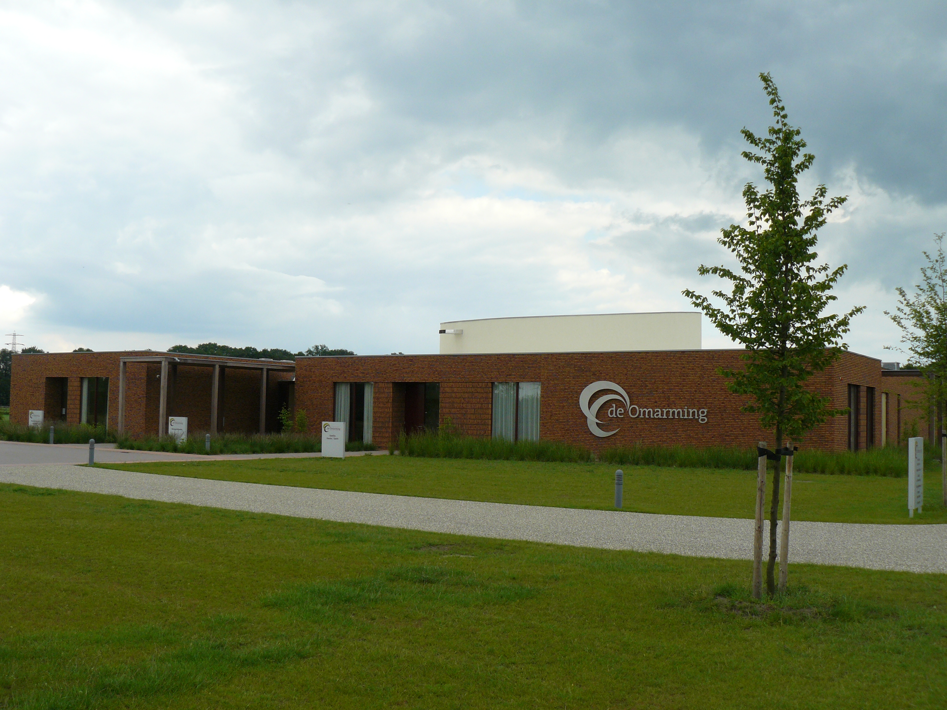 Crematorium 'De Omarming' ('The Embrace') at the Oosterbegraafplaats (municipal cemetery) in Zutphen